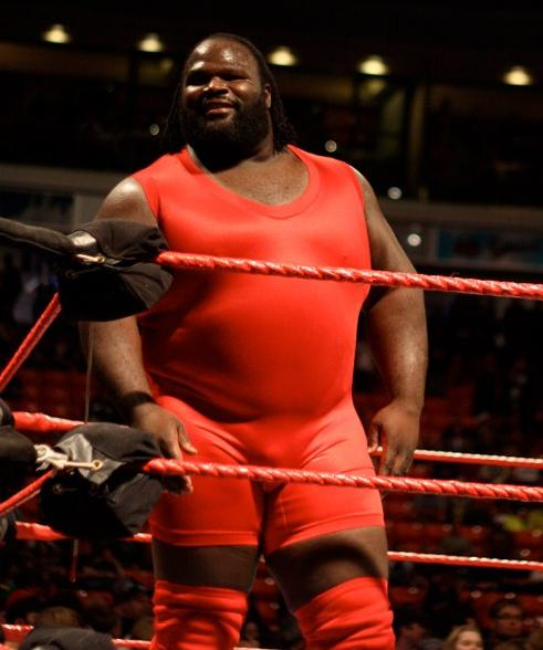 Affable Mark Henry smiles at a group of fans cheering for Kool-Aid during a WWE House Show in Halifax, Nova Scotia, Canada.